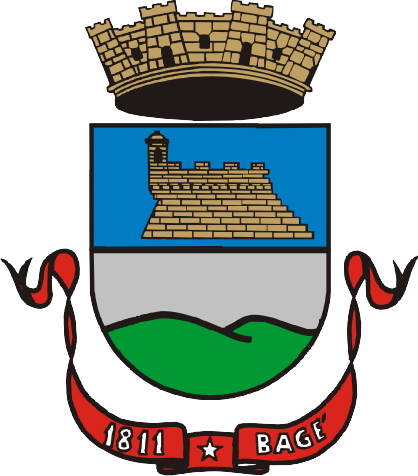 Coat of the city of Bagé, Rio Grande do Sul, Brazil.